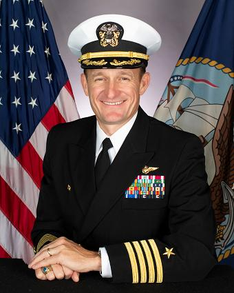 Capt. Brett E. Crozier